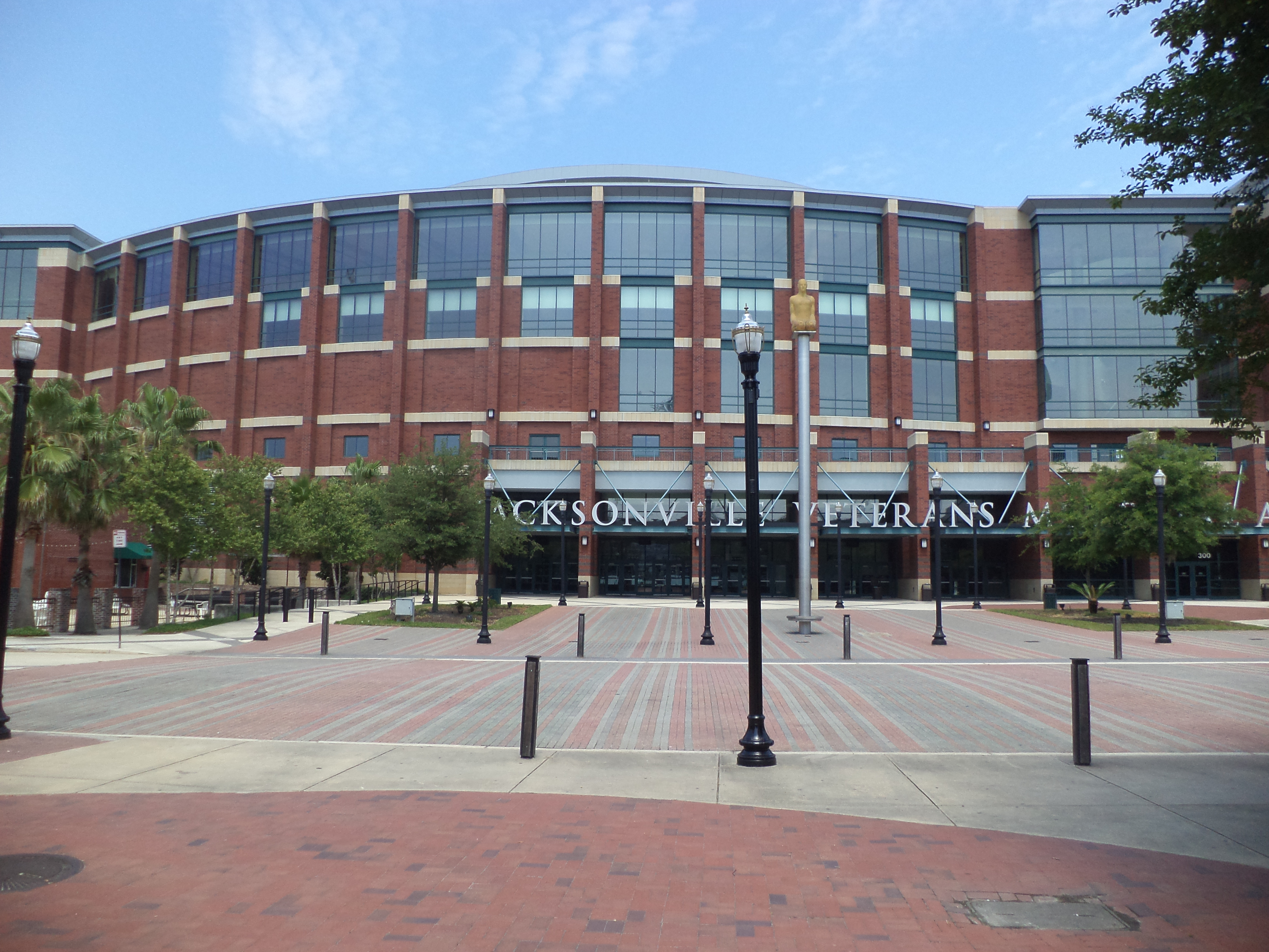 Jacksonville Veterans Memorial Arena front, 300 A Philip Randolph Blvd, Jacksonville, Duval County, Florida